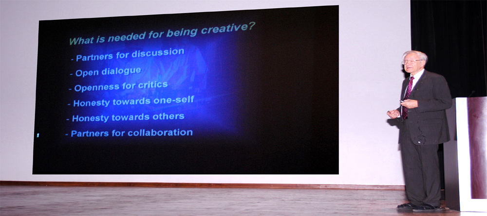 Nobel laureate ernst